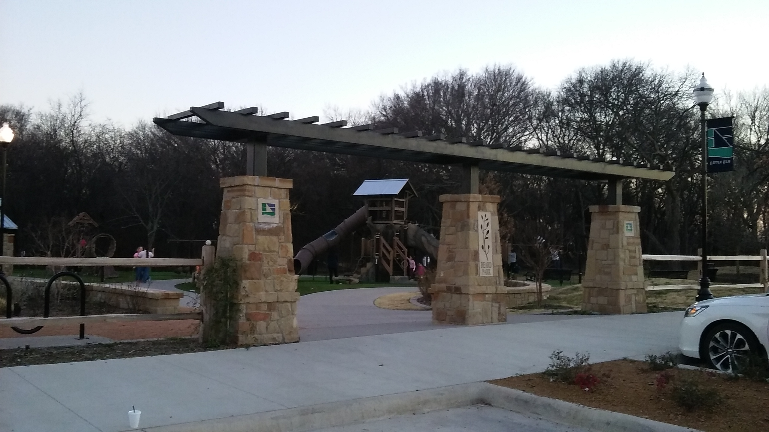 This is a picture of the entrance to Beard Park in Little Elm, Texas.